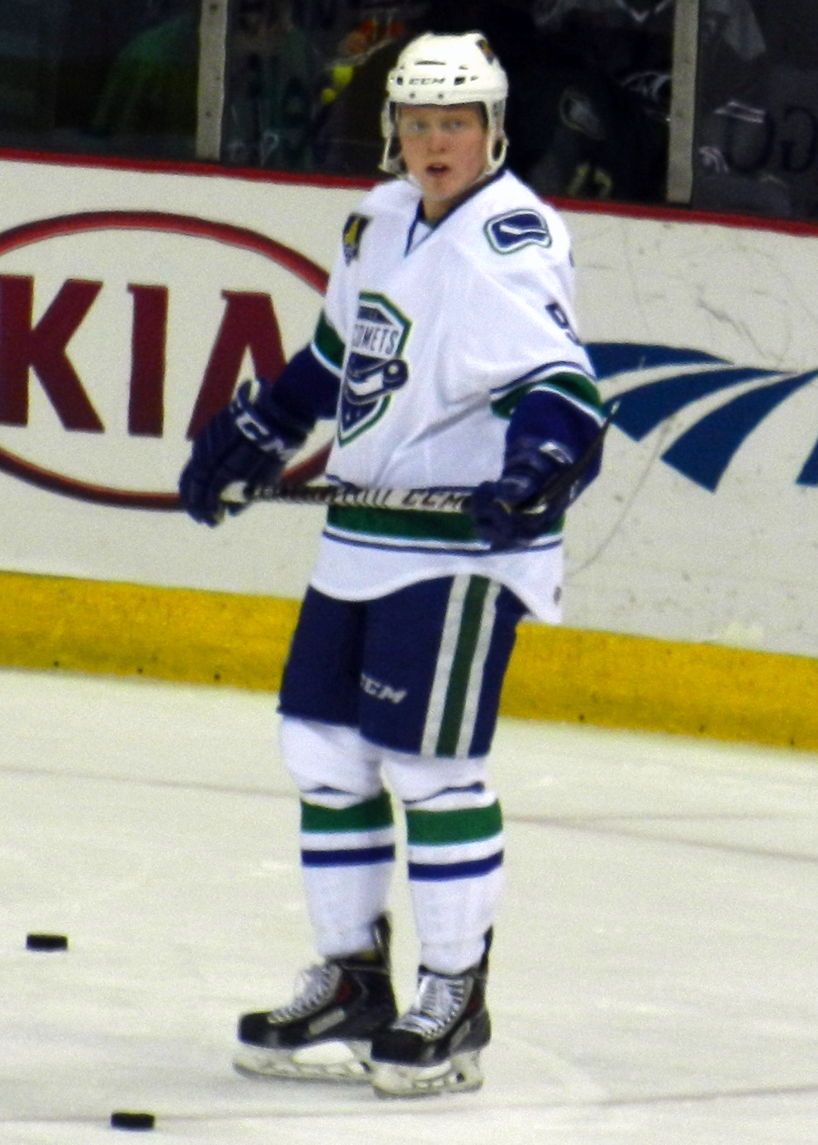 Hunter Shinkaruk with the Utica Comets during warm-ups